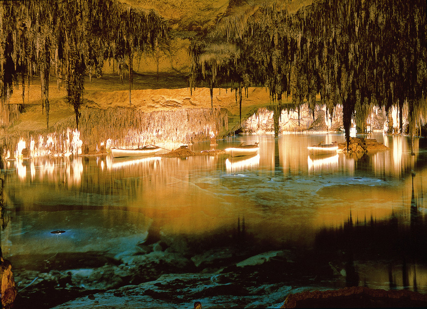 Cuevas del Drach